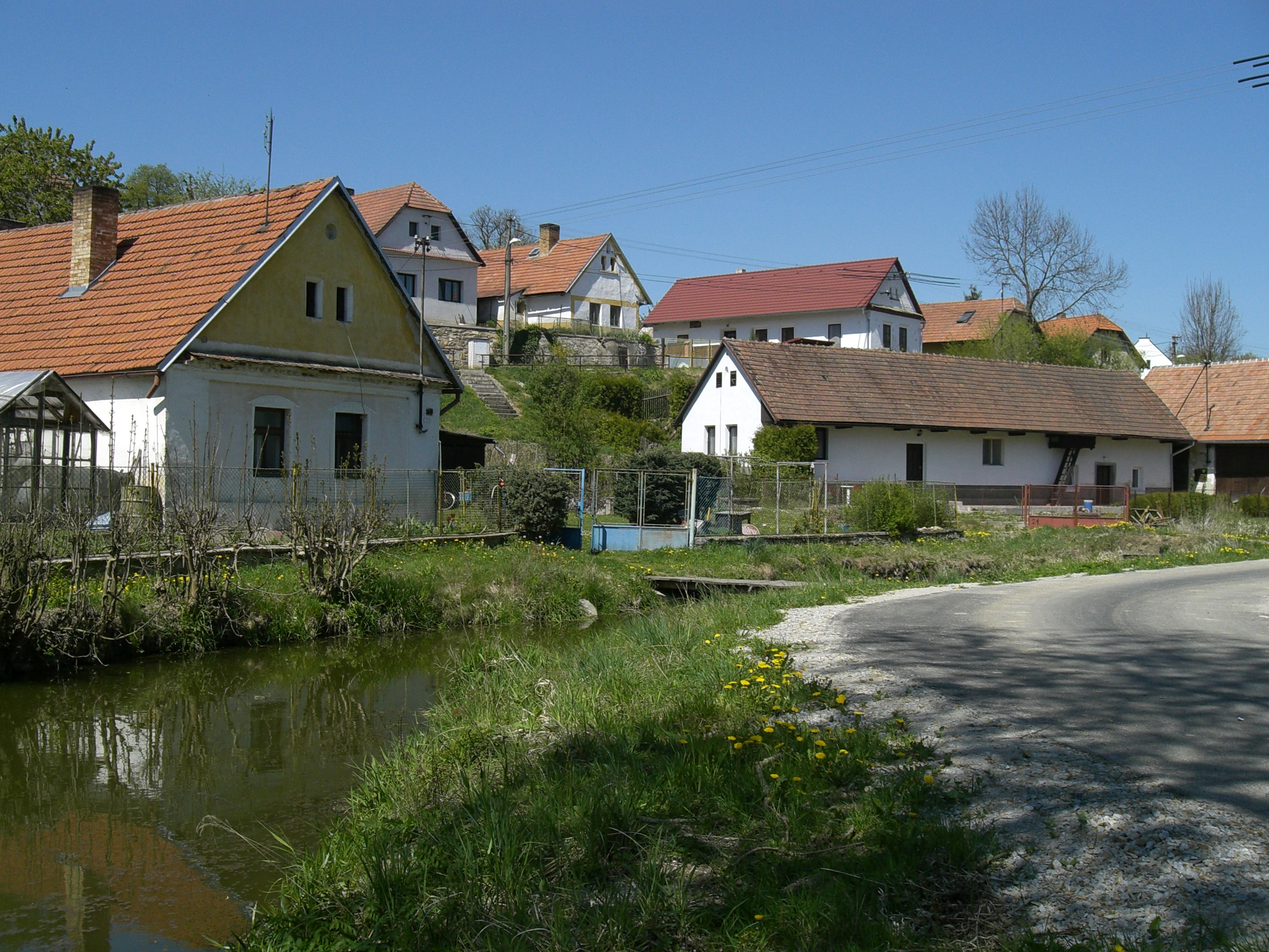 Osek village in Písek District, Czech Republic.